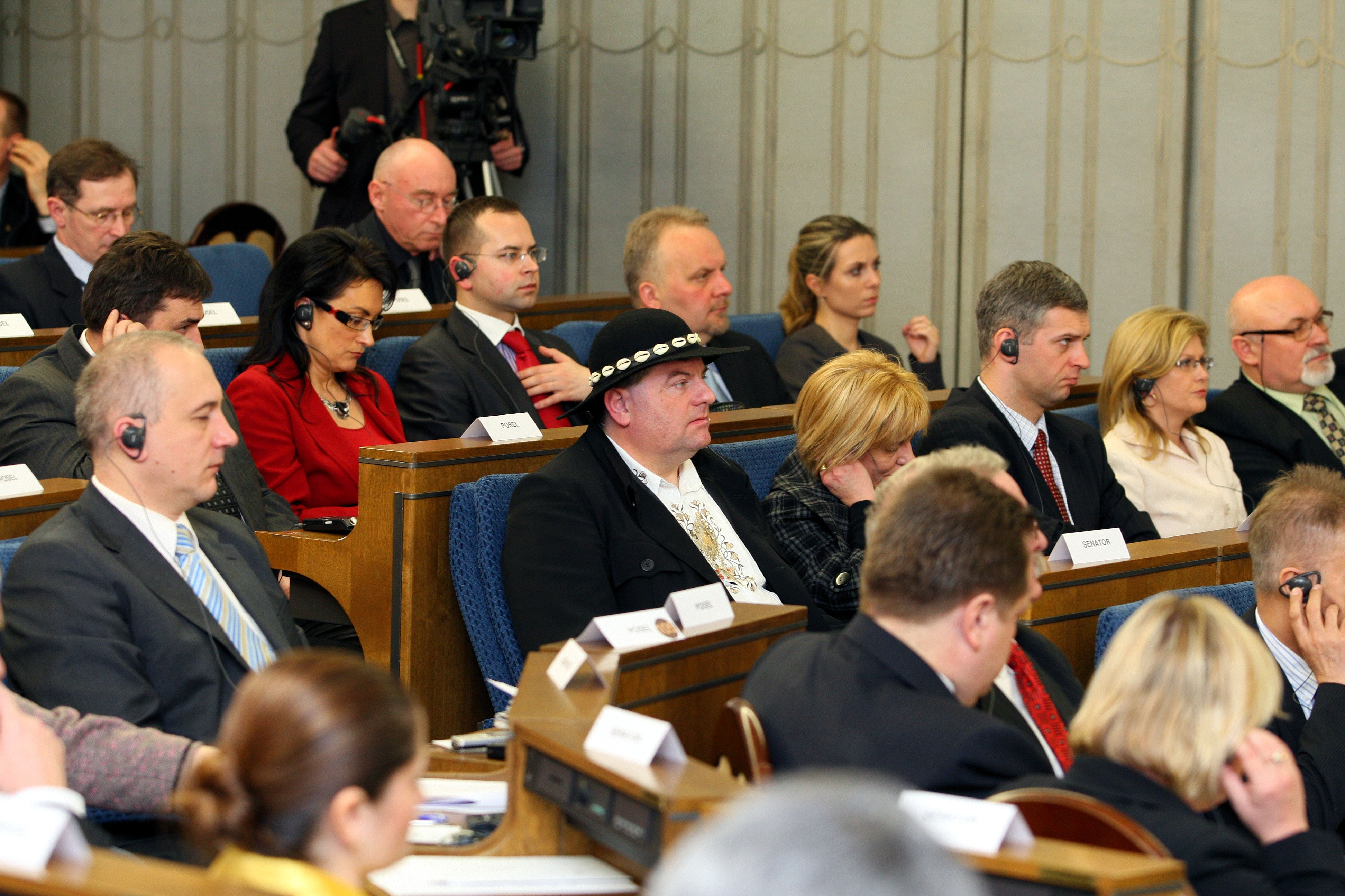 Joint parliamentary assembly of deputies and senators during the address of Israeli President Shimon Peres in the Polish Senate